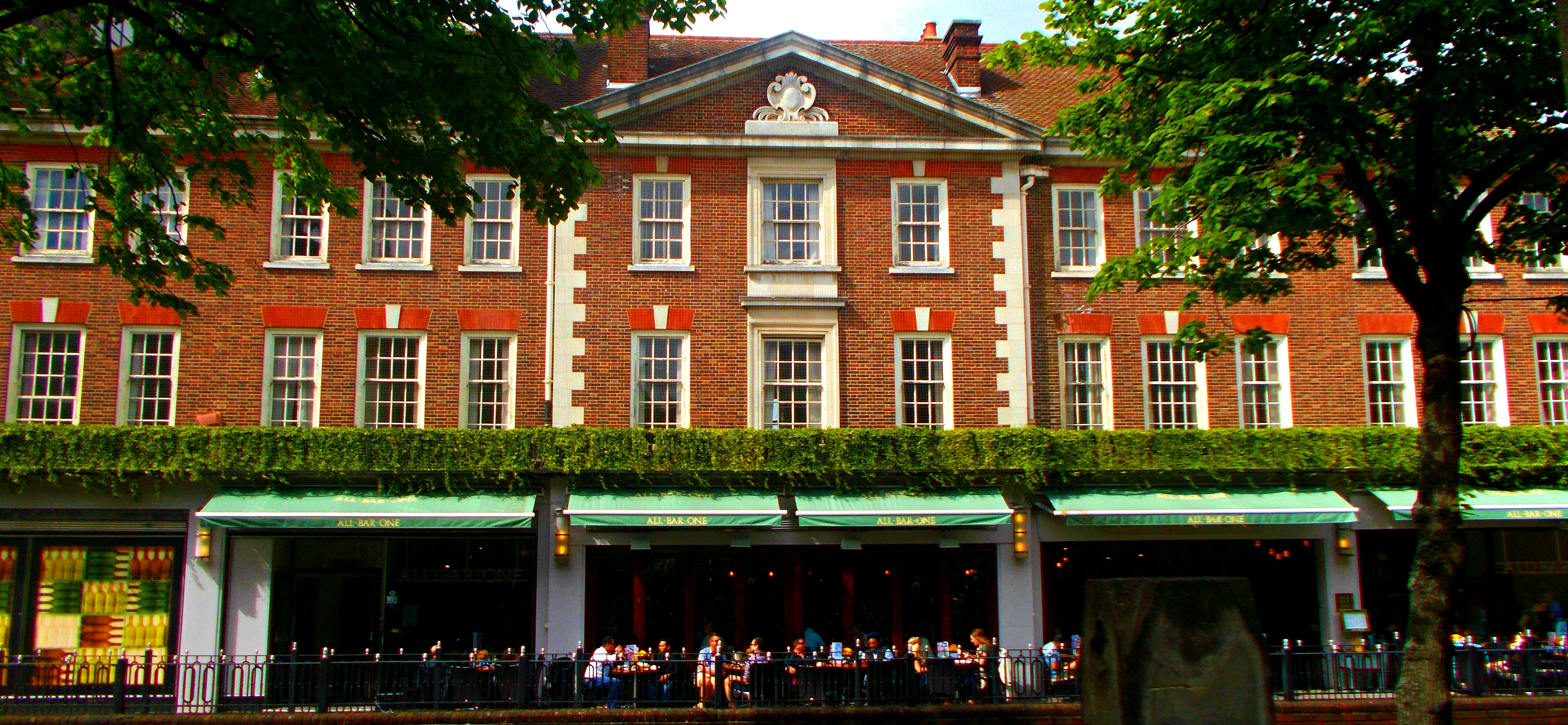 All Bar One building, SUTTON , Surrey, Greater London